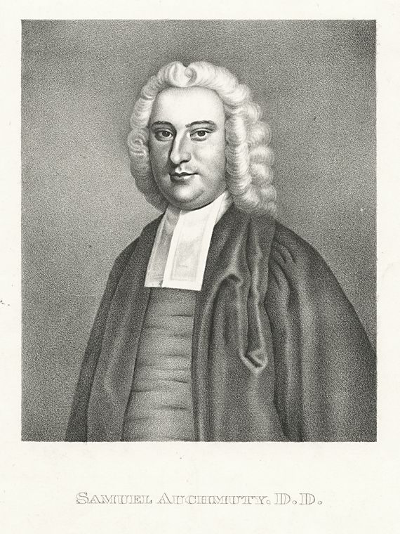 Samuel Auchmuty, father of Samuel Auchmuty, (1722-1777).